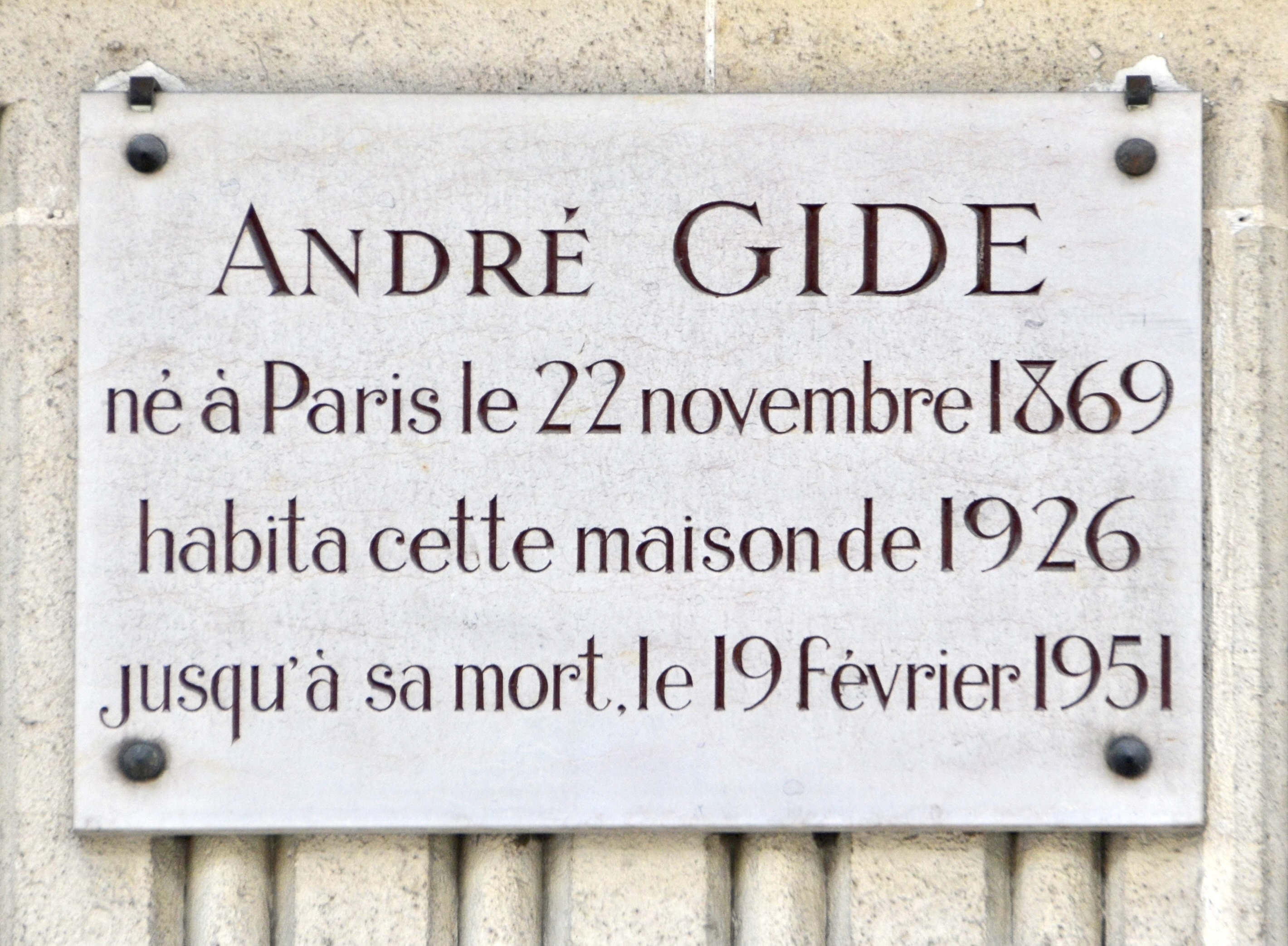 Read more about him here